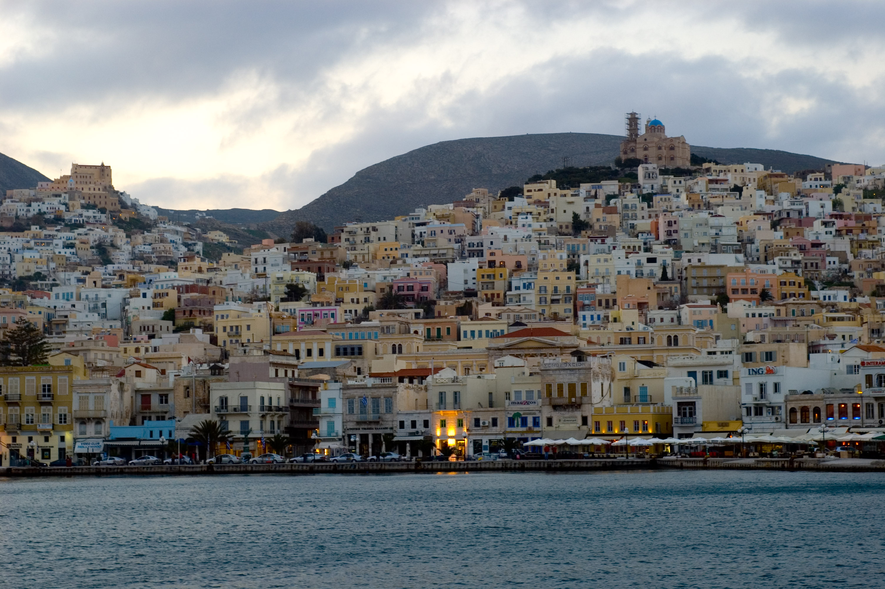 Ermopouli, Harbour of Syros Island, Greece/Port de Syros, Grèce